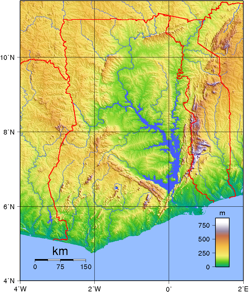 Topographic map of Ghana. Created with GMT from SRTM data.